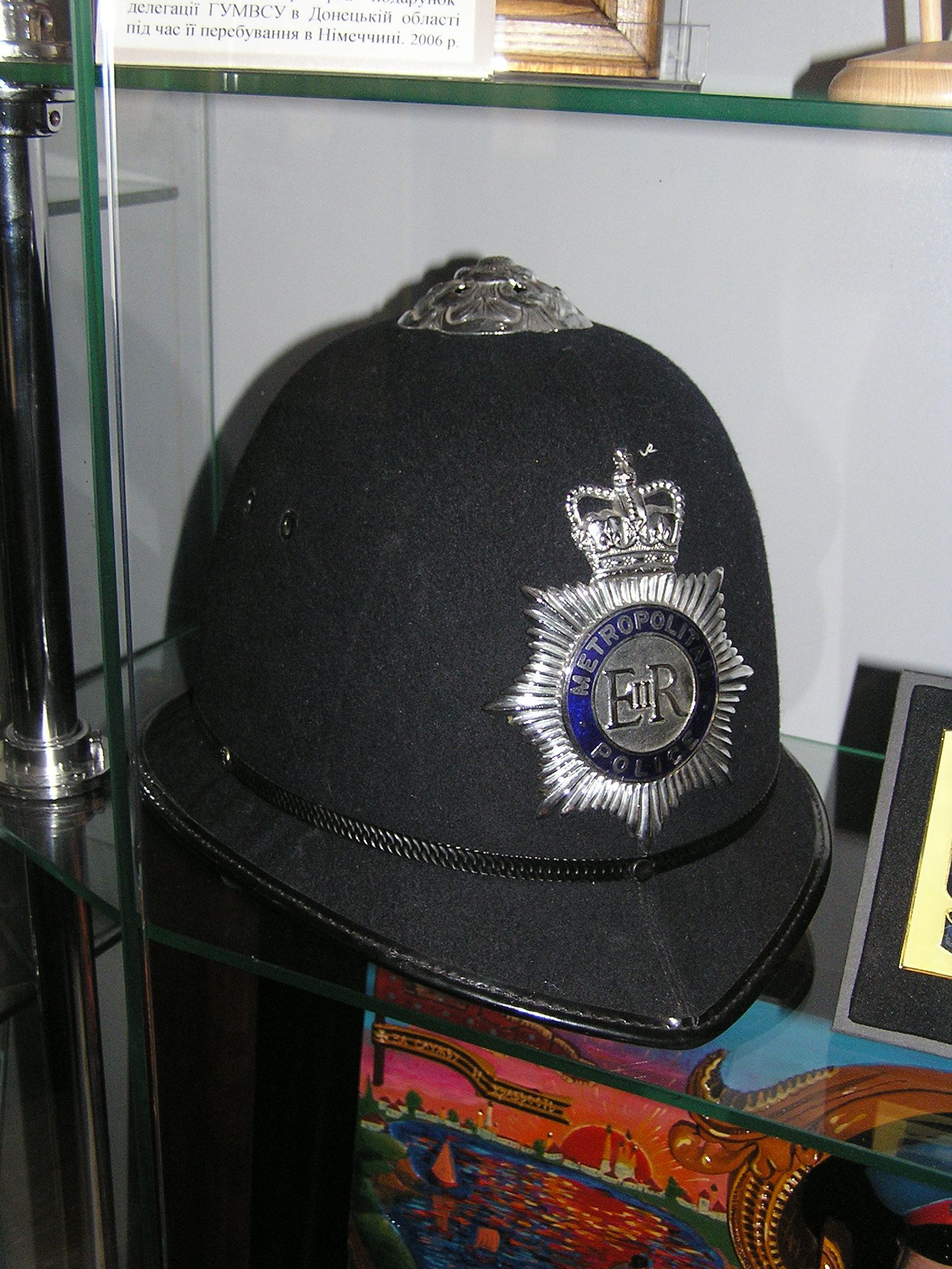 Museum of the History of Donetsk militsiya